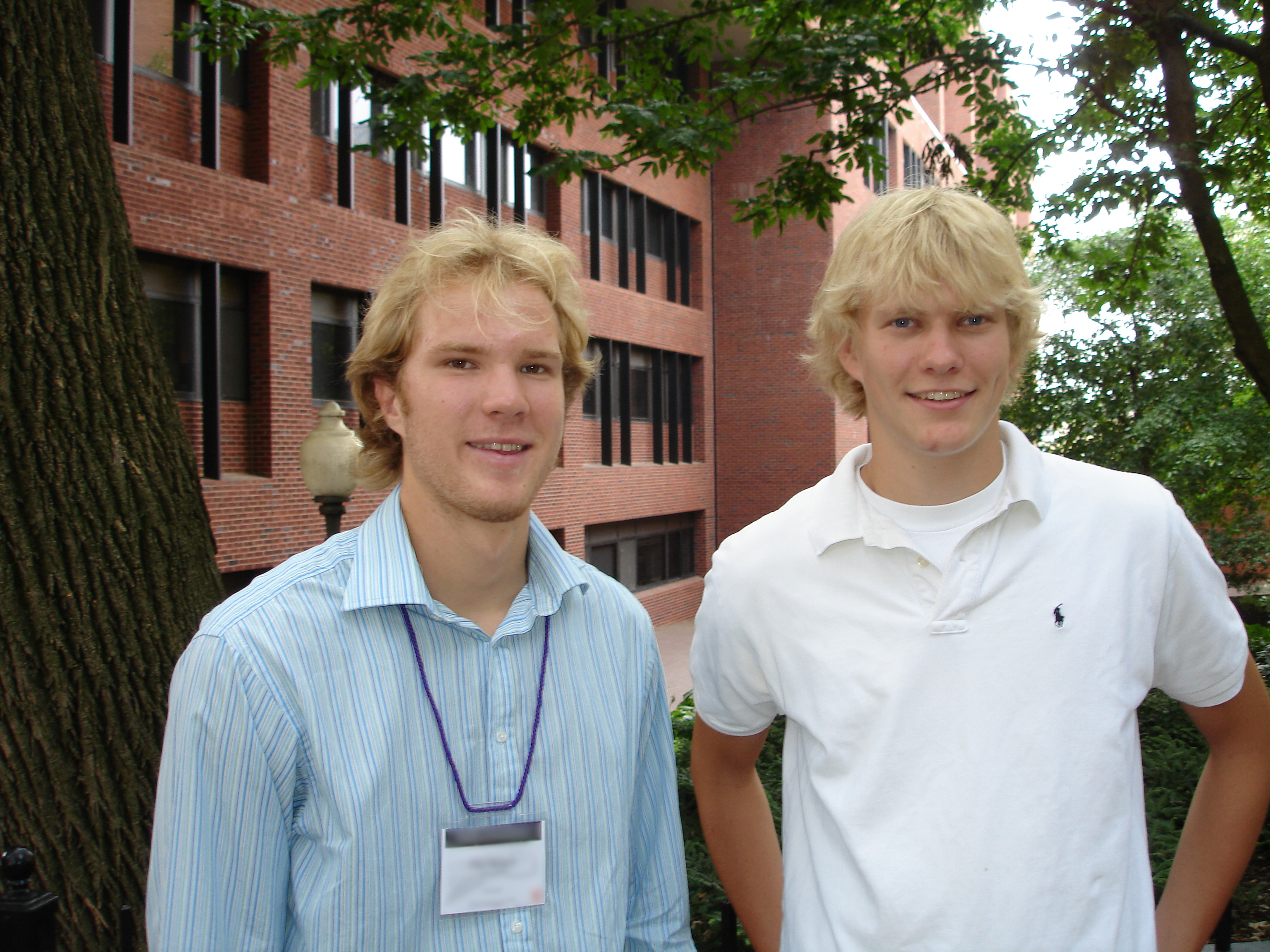 Two blond males.